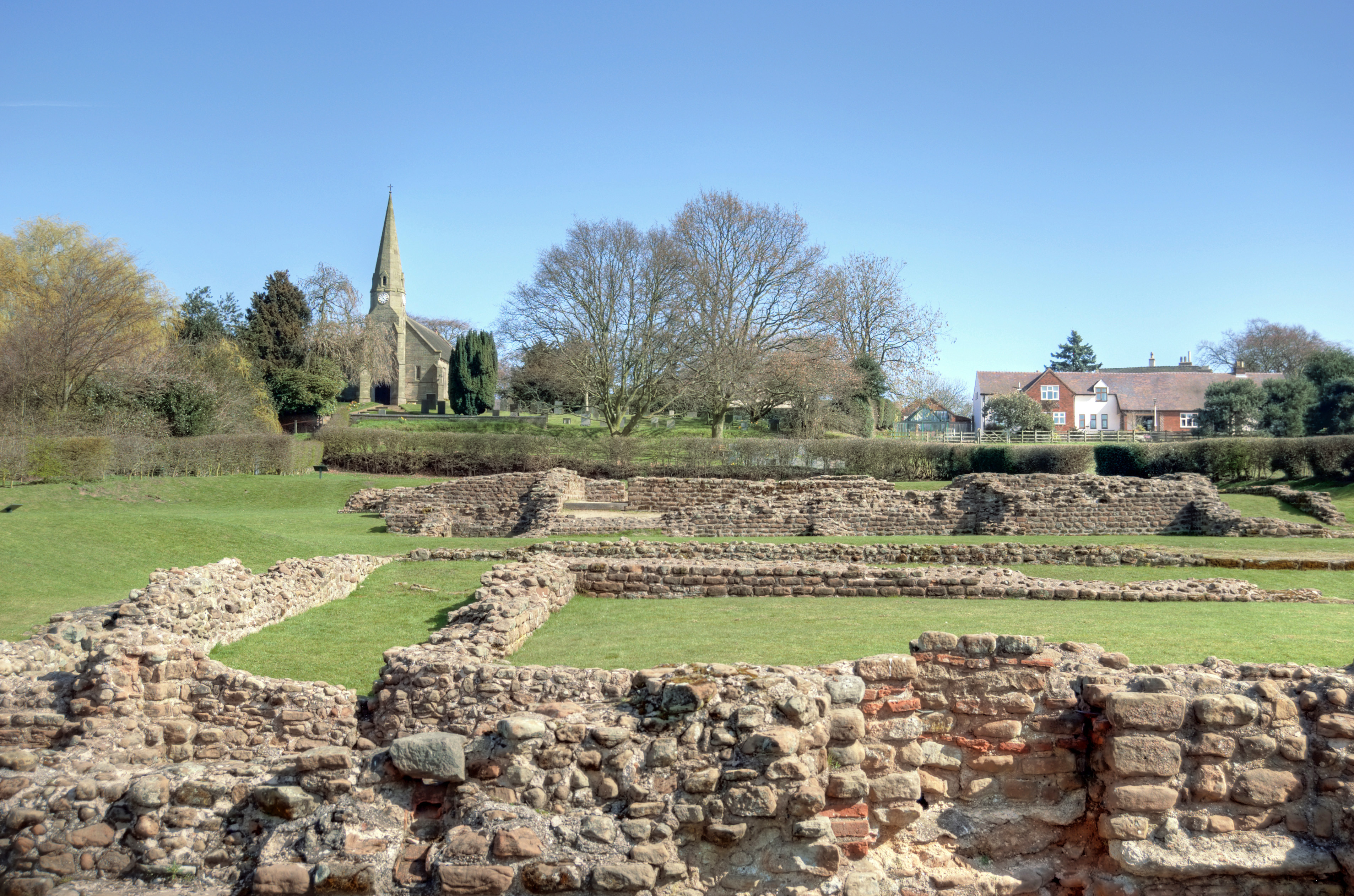 The remains of the Roman Town of Letocetum at Wall, Staffordshire